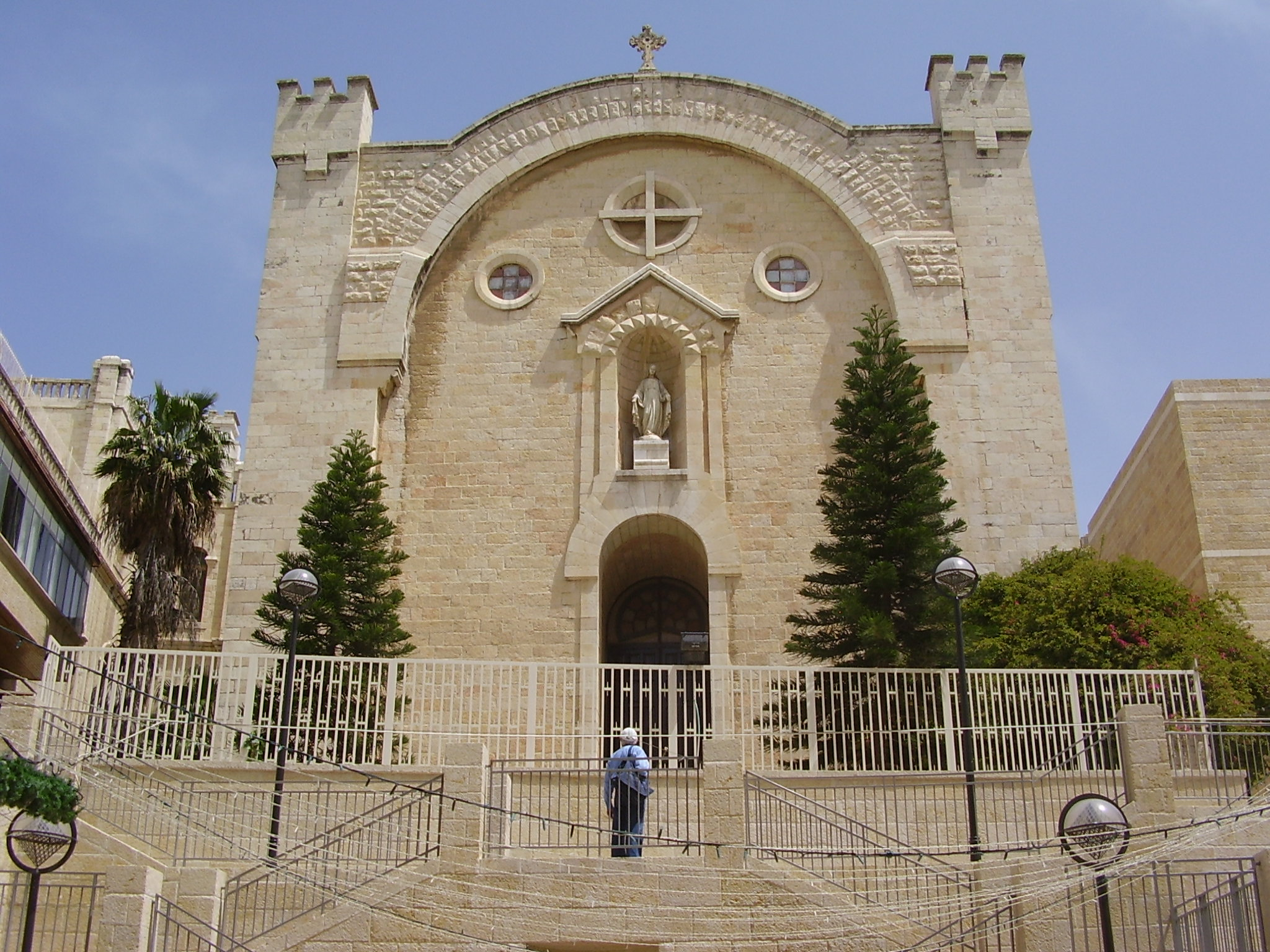 Monastery of Saint Vincent de Paul in Jerusalem